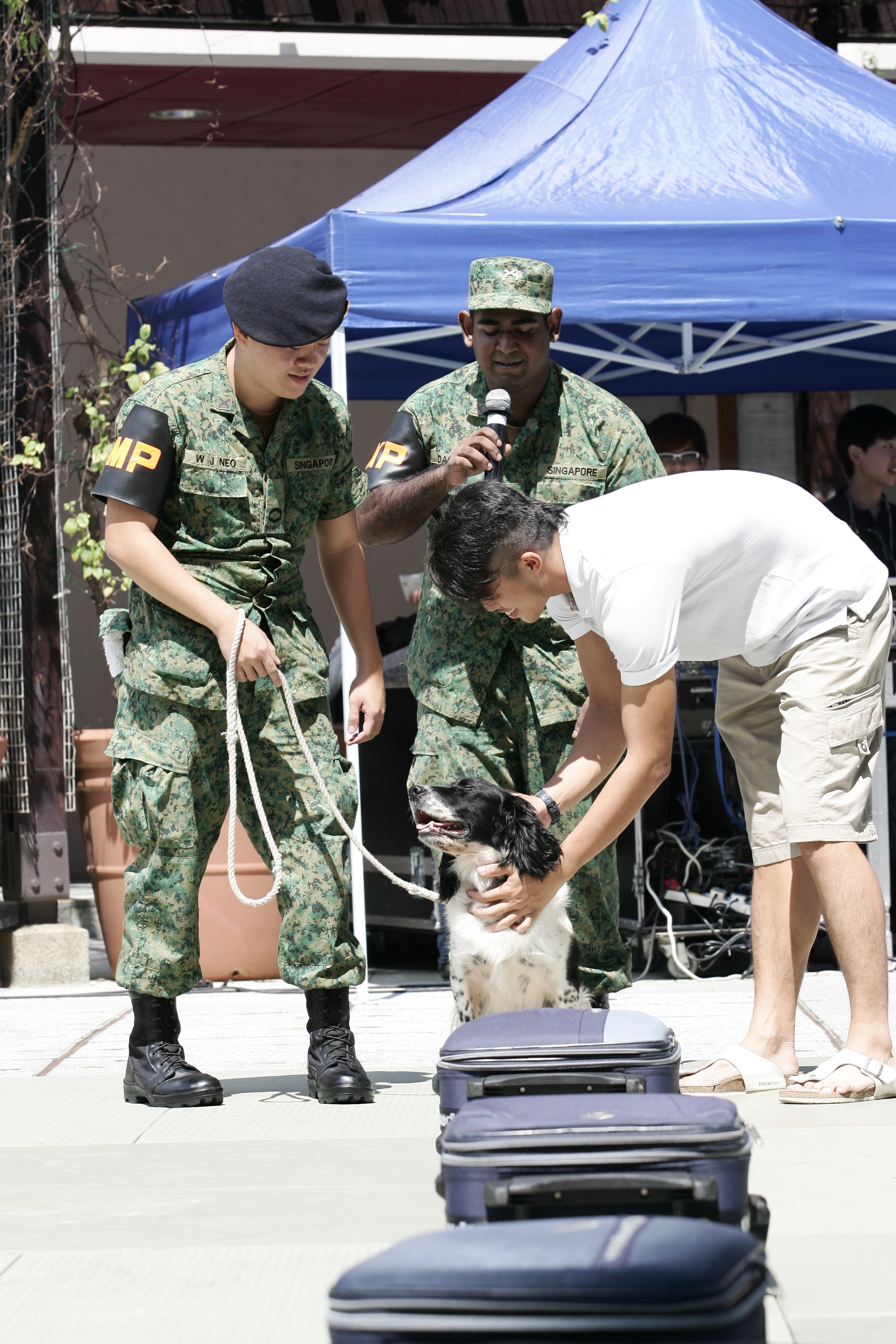 The Singapore Armed Forces Military Police Command's Dog Unit performing a demonstration of their sniffer dogs' capabilities at Temasek Polytechnic.